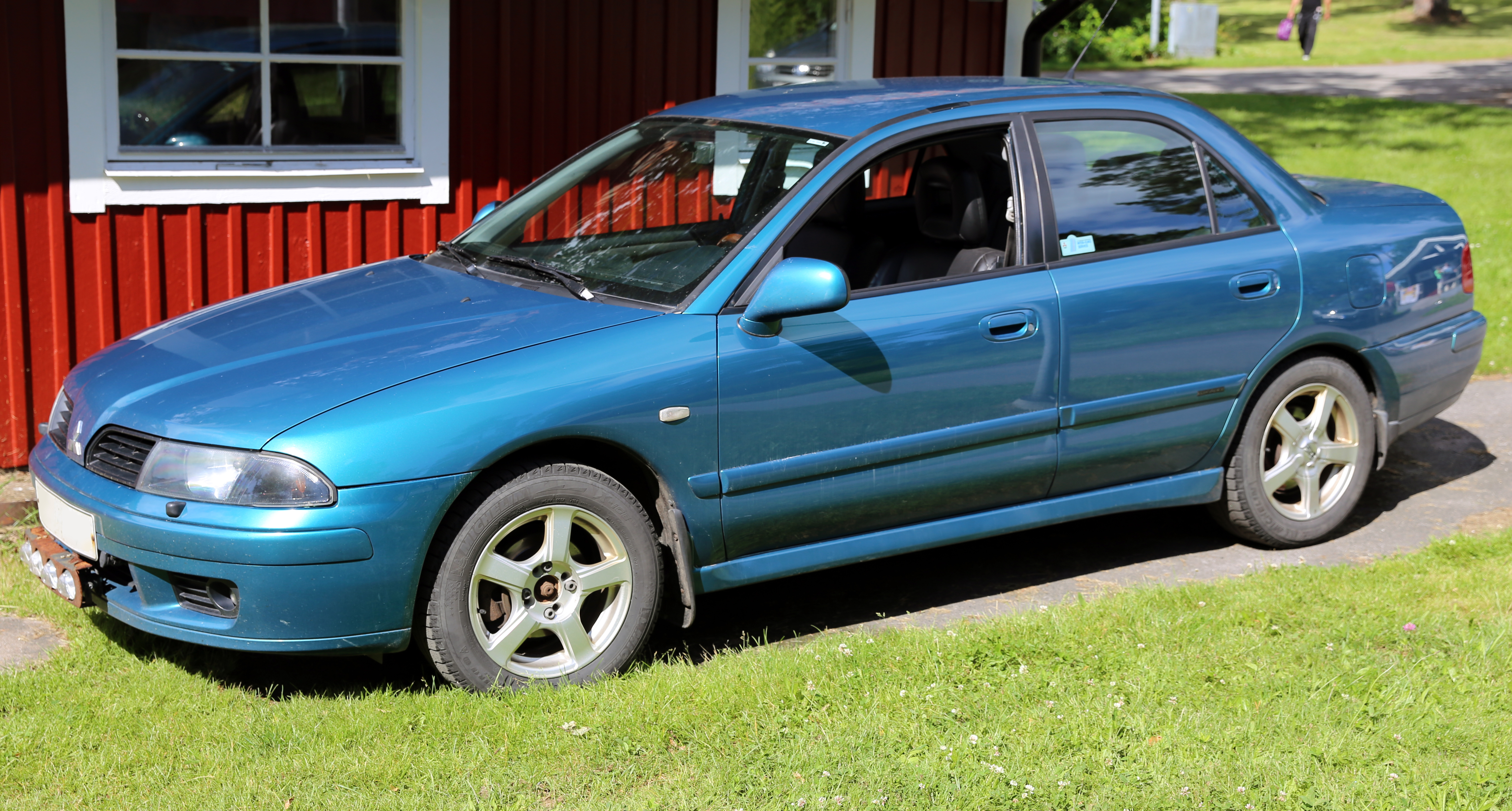 2002 Mitsubishi Carisma S 1.8 GDi, 90kW. Model code SNDA2A.